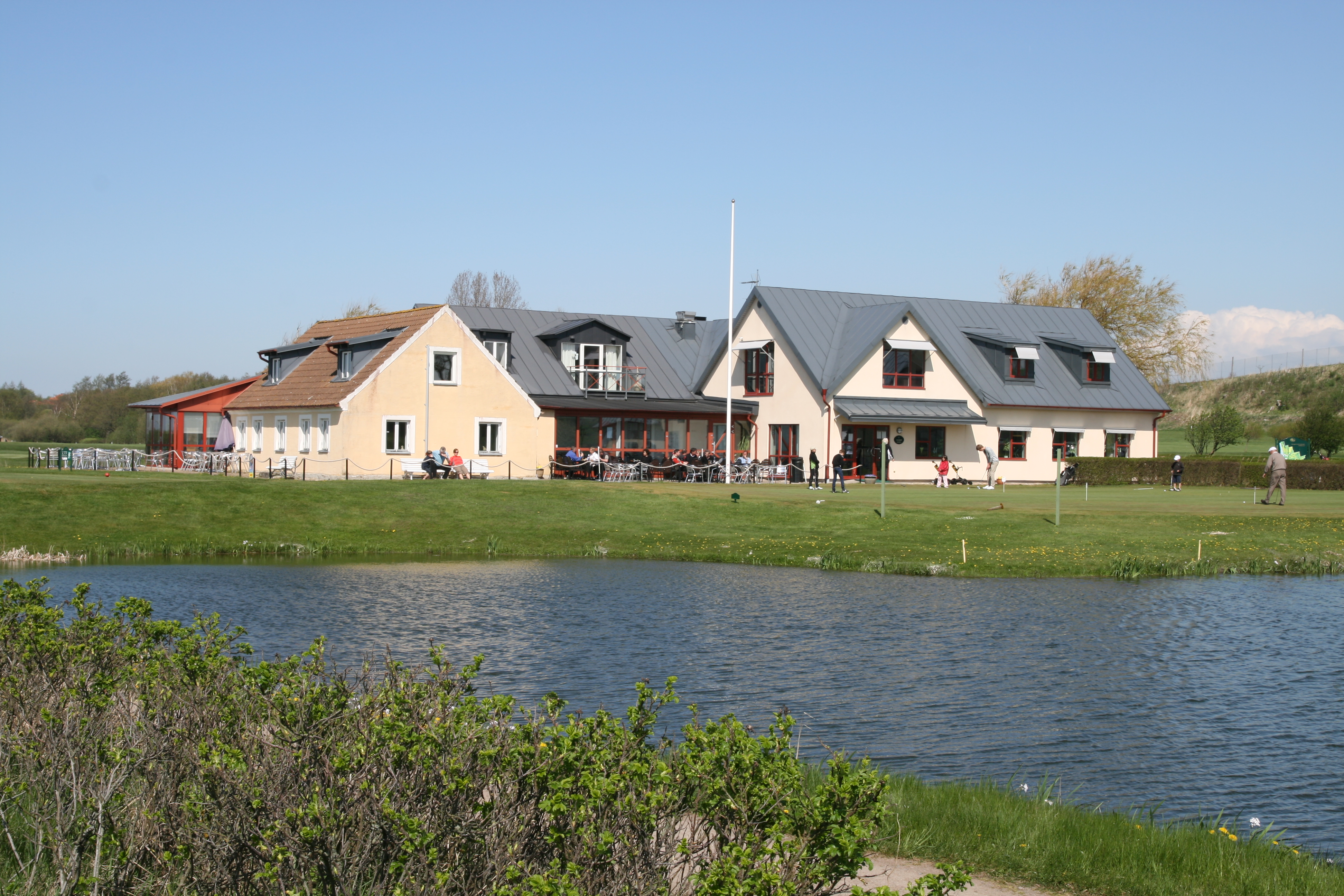 The club house of the Rya golf club south of Helsingborg, Sweden.